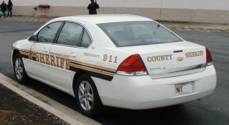 A 2006-2007 Chevrolet Impala LS of the Prince George's County Sheriff's Office photographed in the United States of America, in December 2006.